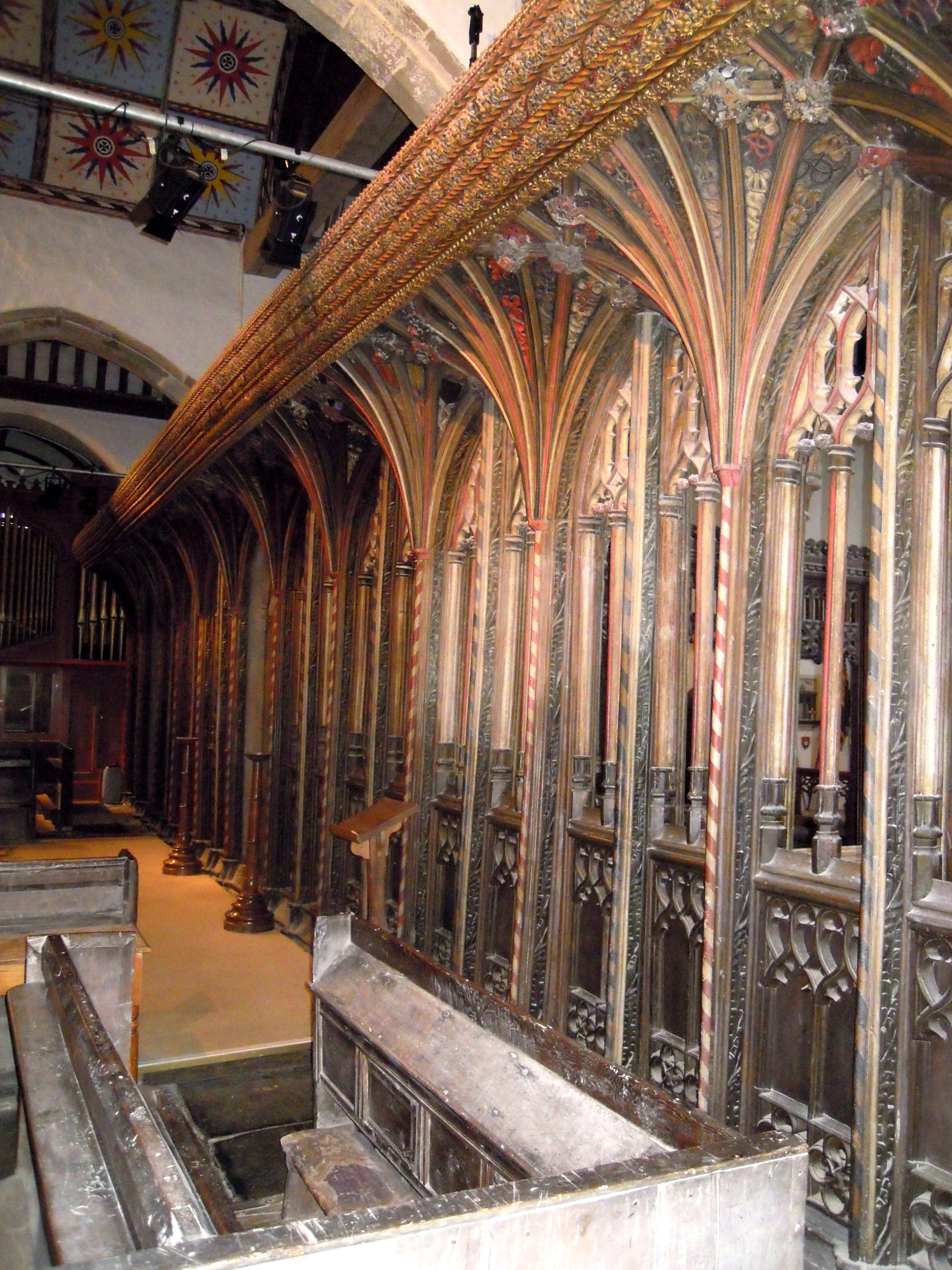 The 15th-century rood screen at St Nectan's Church, Hartland in Devon